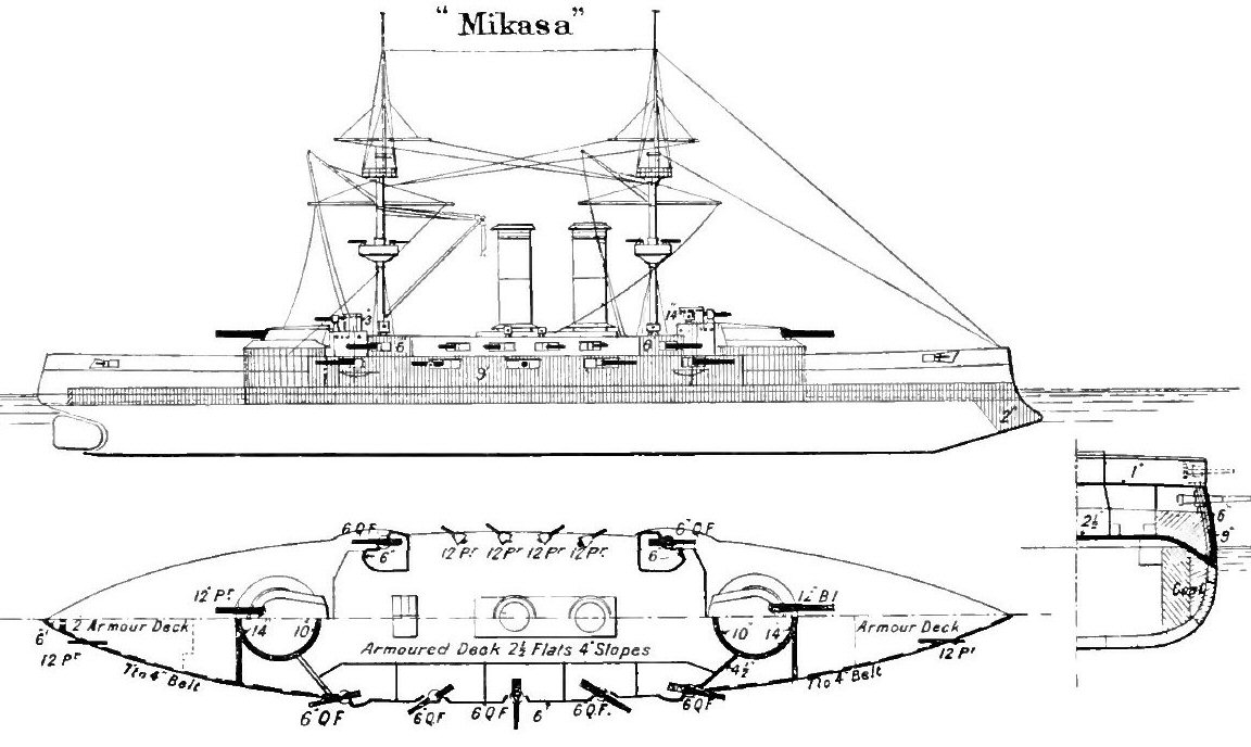 Sketch of the Japanese battleship Mikasa.